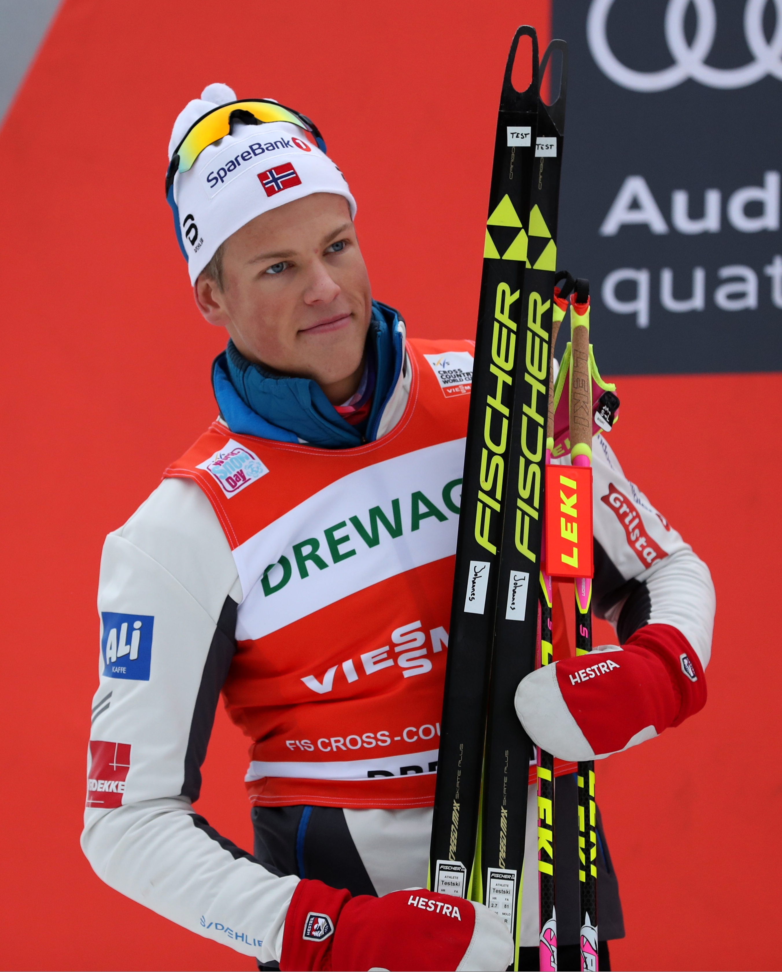 Mens Award Ceremony at the FIS Cross-Country World Cup Dresden 2018: Johannes Høsflot Klæbo